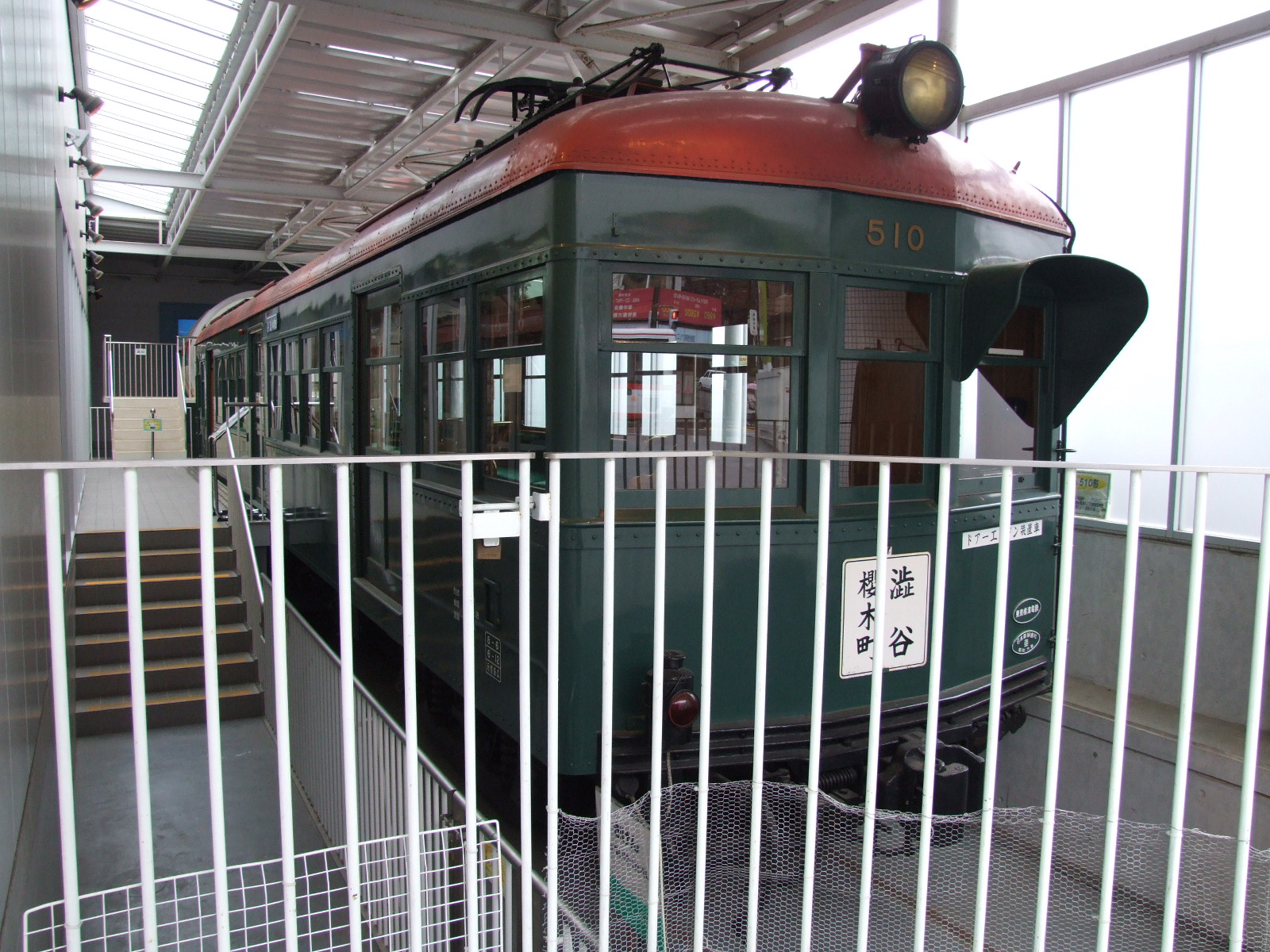 Series 3450,Tokyo Kyuko Kabushikigaisha,Japan